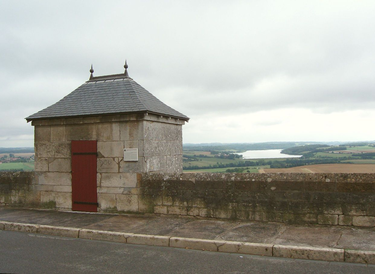 Langres, watchtower on the eastern city walls